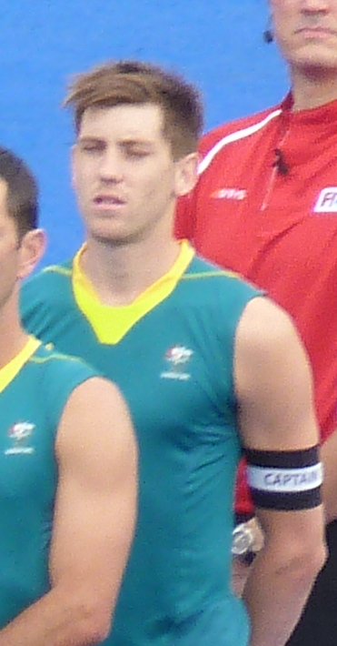 2012 Olympic field hockey team Australia at the Riverbank Arena before the game against Spain